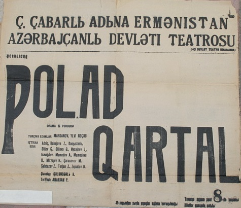 Poster of "Steel Eagle" in Yerevan State Azerbaijani Theatre named after Jabbar Jabbarly